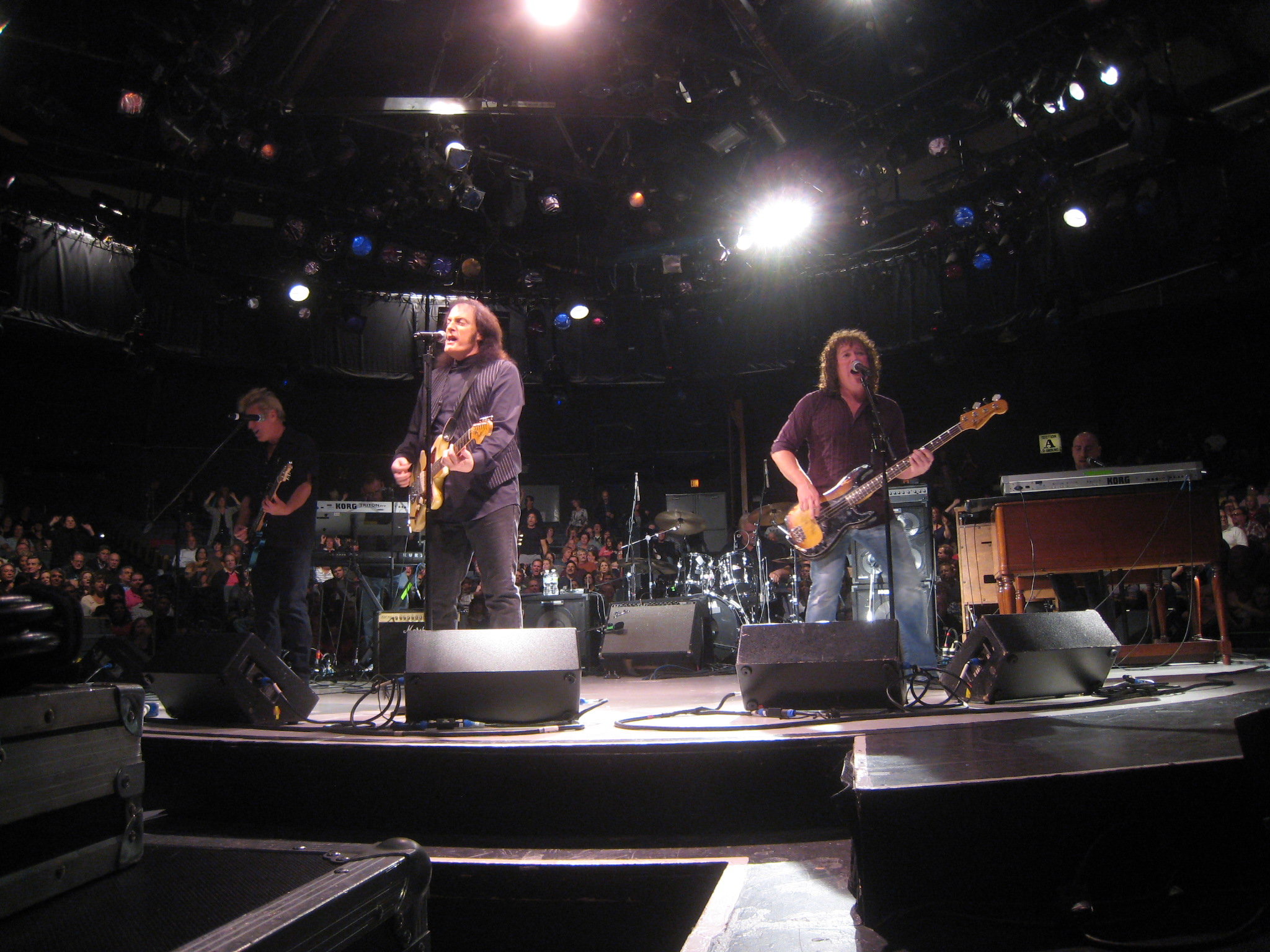 Tommy James and the Shondells performing during their tour in 2010